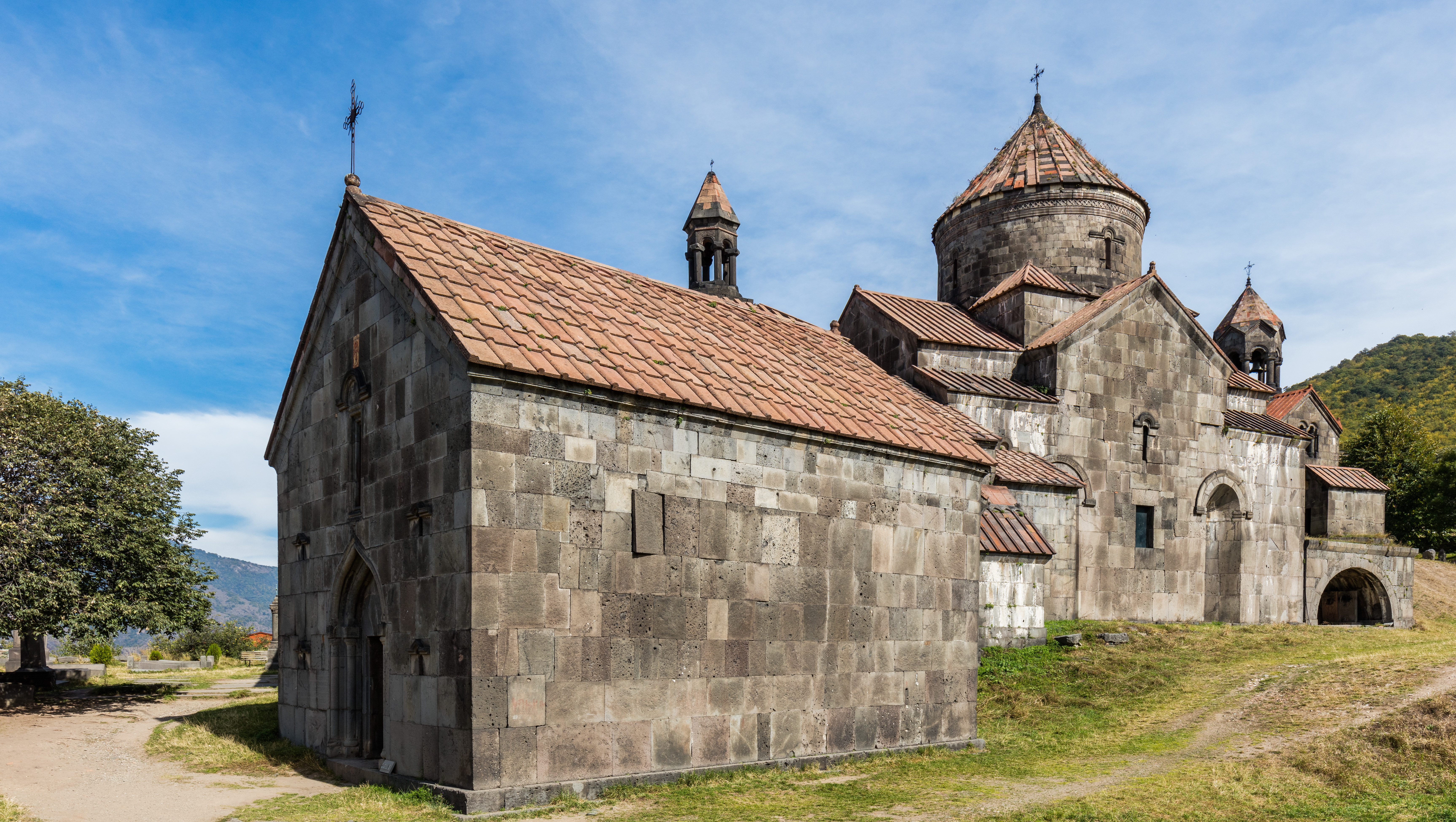 Haghpat Monastery, Armenia